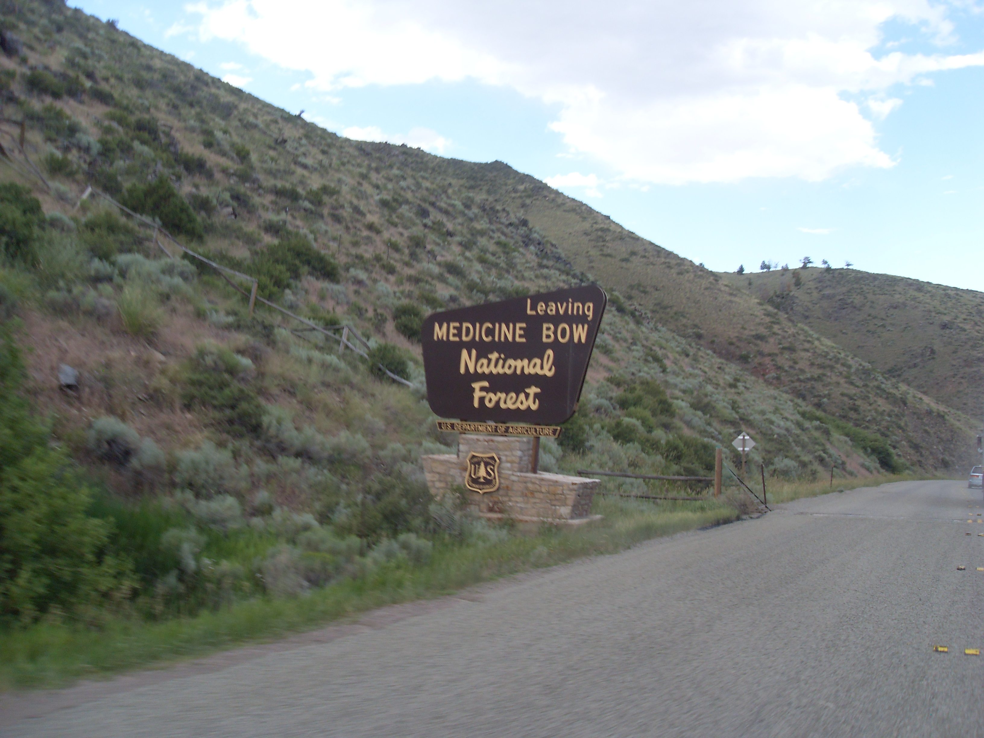 Medicine Bow National Forest sign close to Walden, Colorado